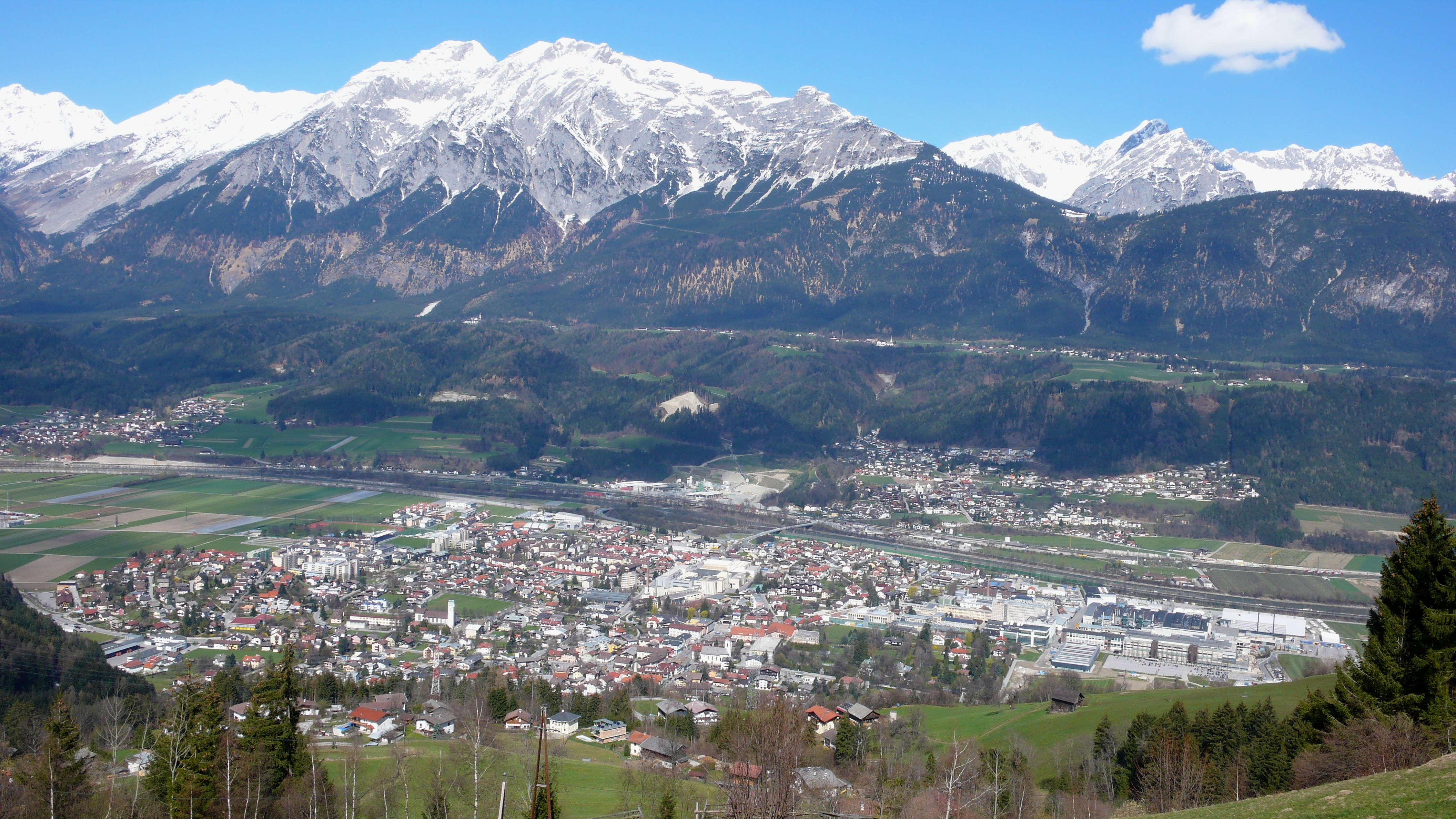 Marktgemeinde Wattens Karwendelgebirge Süd, Austria. Mountains from left to right: Gleirsch-Halltal-Kette: Großer Lafatscher 2696m, Kleiner Lafatscher 2636m, Speckkarspitze 2621m, Kleiner Bettelwurf 2650m, Großer Bettelwurf 2726m, Hohe Fürleg 2570m, Hundskopf 2243m. Hinterautal-Vomper-Kette: Spritzkarlspitze 2376m, Eiskarlspitze 2610m, Hochglück 2573m, Kaiserkopf 2503m, Huderbankspitze 2454m, Schafkarspitze 2505m, Mitterkarlspitze 2418m, Lamsenspitze 2508m